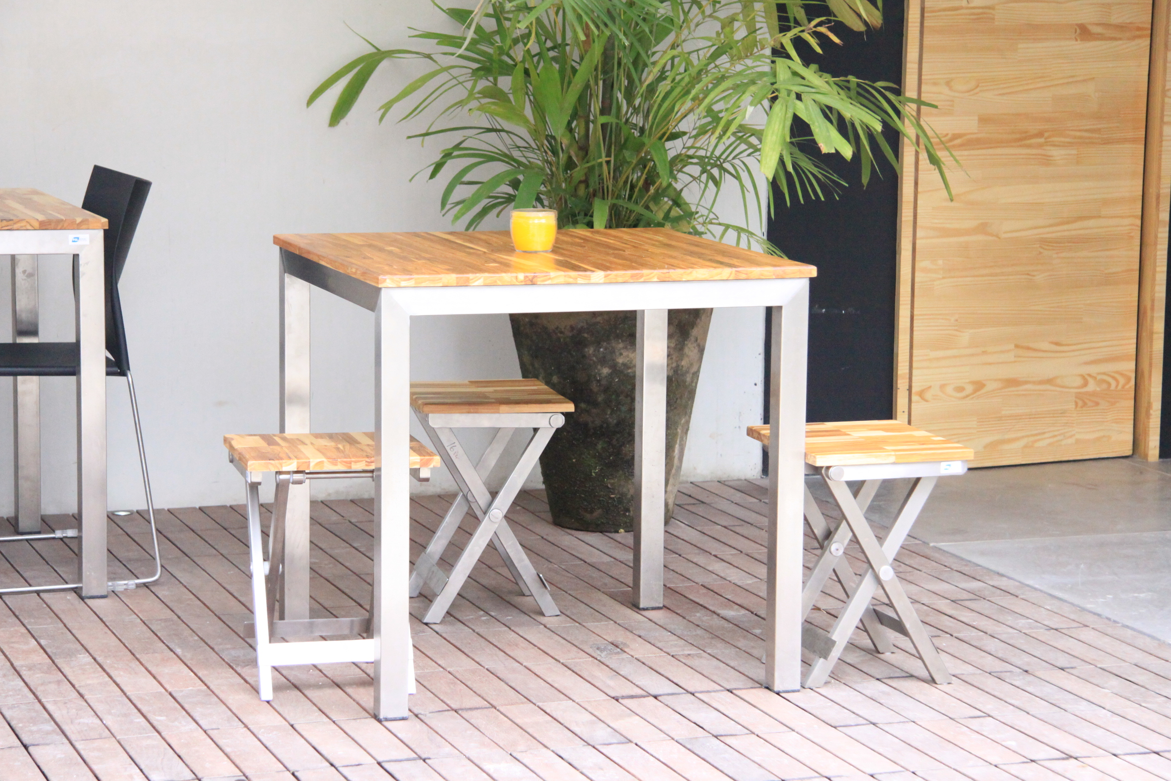 Stainless steel table with eucalyptus wood FSC certified made in Brazil, Rio de Janeiro. Its an example of the right use of ecodesign and environmental friendly material. Design by Palmetal